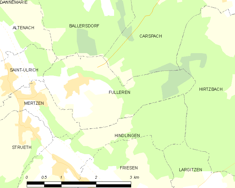 Map of French municipality